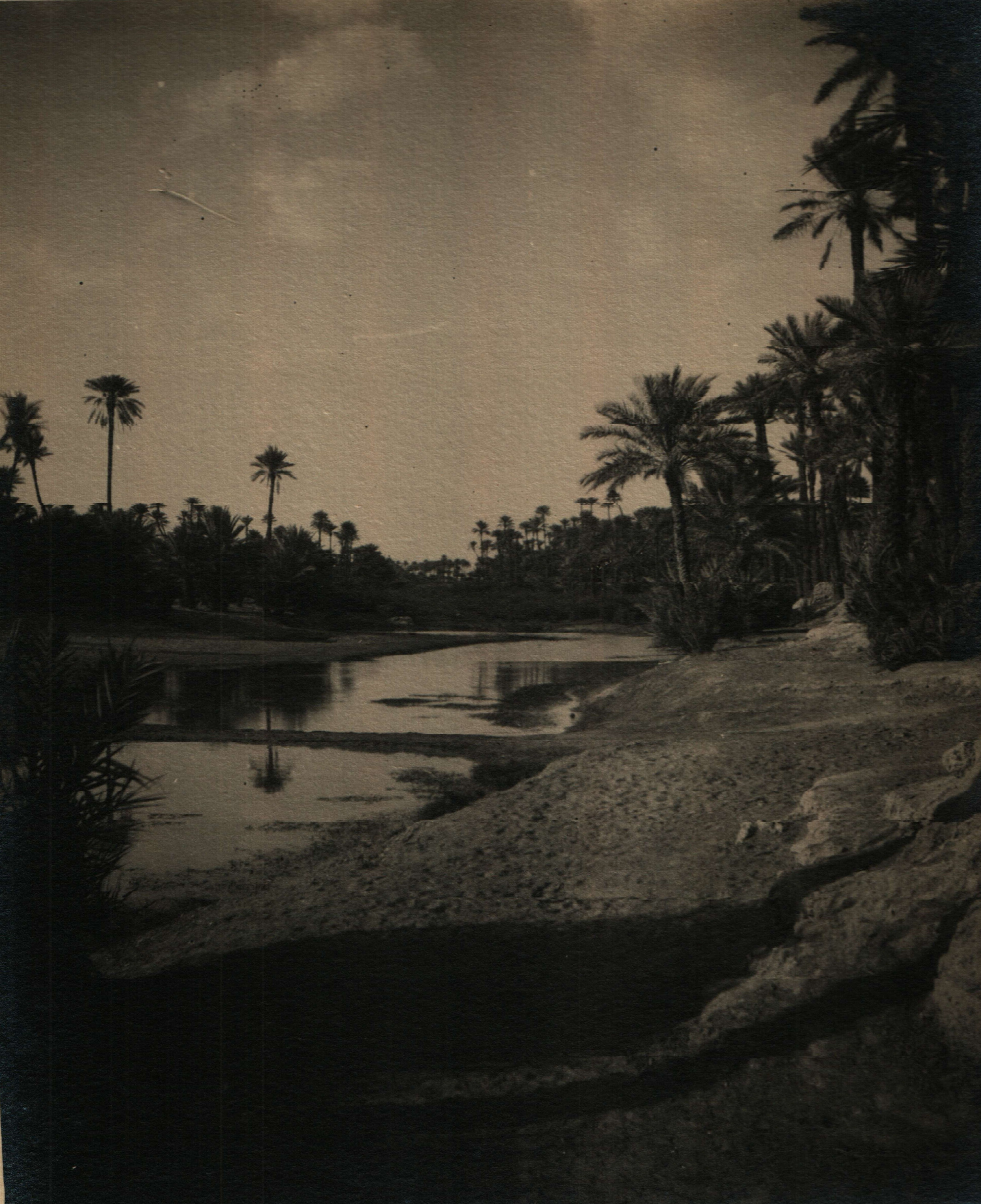 Views and photos of the Sahara desert and other regions in Africa. On the coast of Oued Béchar, Algeria.